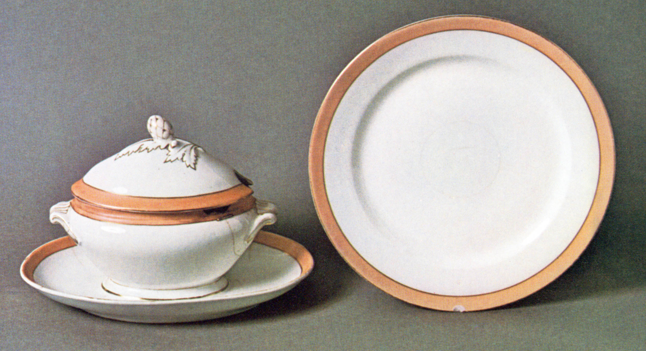 Sugar bowl and dinner plate purchased as part of a porcelain china dining set by First Lady Mary Todd Lincoln in 1864 and used in the White House in Washington, D.C., in the United States. By the fall of 1864, the "Solferino" (purple)-bordered china service ordered by the Lincolns in April 1861 was severely depleted. Most of the china had been broken or stolen, and only a few chipped and repaired pieces were left. In late 1864, Mrs. Lincoln ordered a new set of china for the White House. The importer was China Hall, a company owned by James K. Kerr of Philadelphia. Unlike the very expensive, exquisitely decorated 1861 service, the design this time was extremely simple: A white plate, with a buff border edged in gilt lines. This 511-piece set consisted of dining plates, soup plates, dessert plates, ice cream plates, a wide variety of dishes (large and small fish platters, vegetable platters, side dish platters), tureens, sauce boats, pickle dishes, salad bowls, custard cups, fruit baskets (round and oval), fruit platters, sugar bowls, coffee cups and saucers, and other items. This set cost $1,700, and was billed on January 30, 1865. It's not clear which firm manufactured the china, but it is clearly of French make. On February 20, Mrs. Lincoln made an addition order of coffee cups and saucers, water pitchers, and bowls. These 24 items were in the same style, and cost $173.50. The main set of china arrived in the United States via express shipment on February 13, 1865. The remaining 46 pieces arrived a few weeks later, and was probably delivered just days before Abraham Lincoln was assassinated on April 15, 1865.